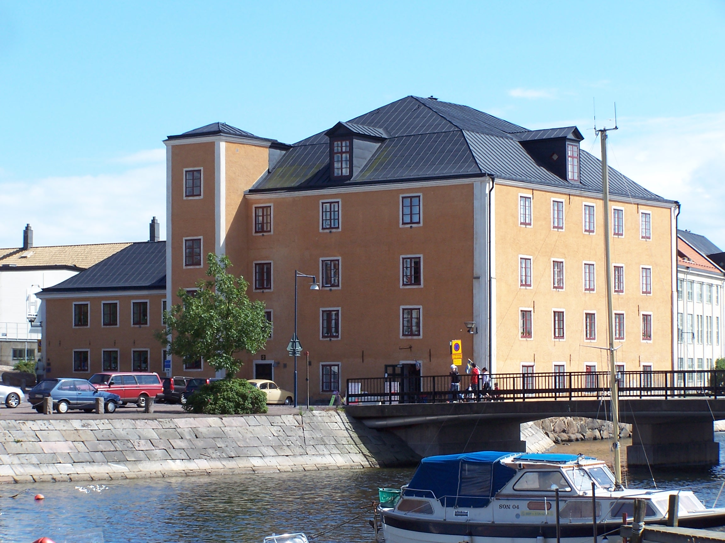 Crown bakery/Clothing store, Stumholmen, Karlskrona